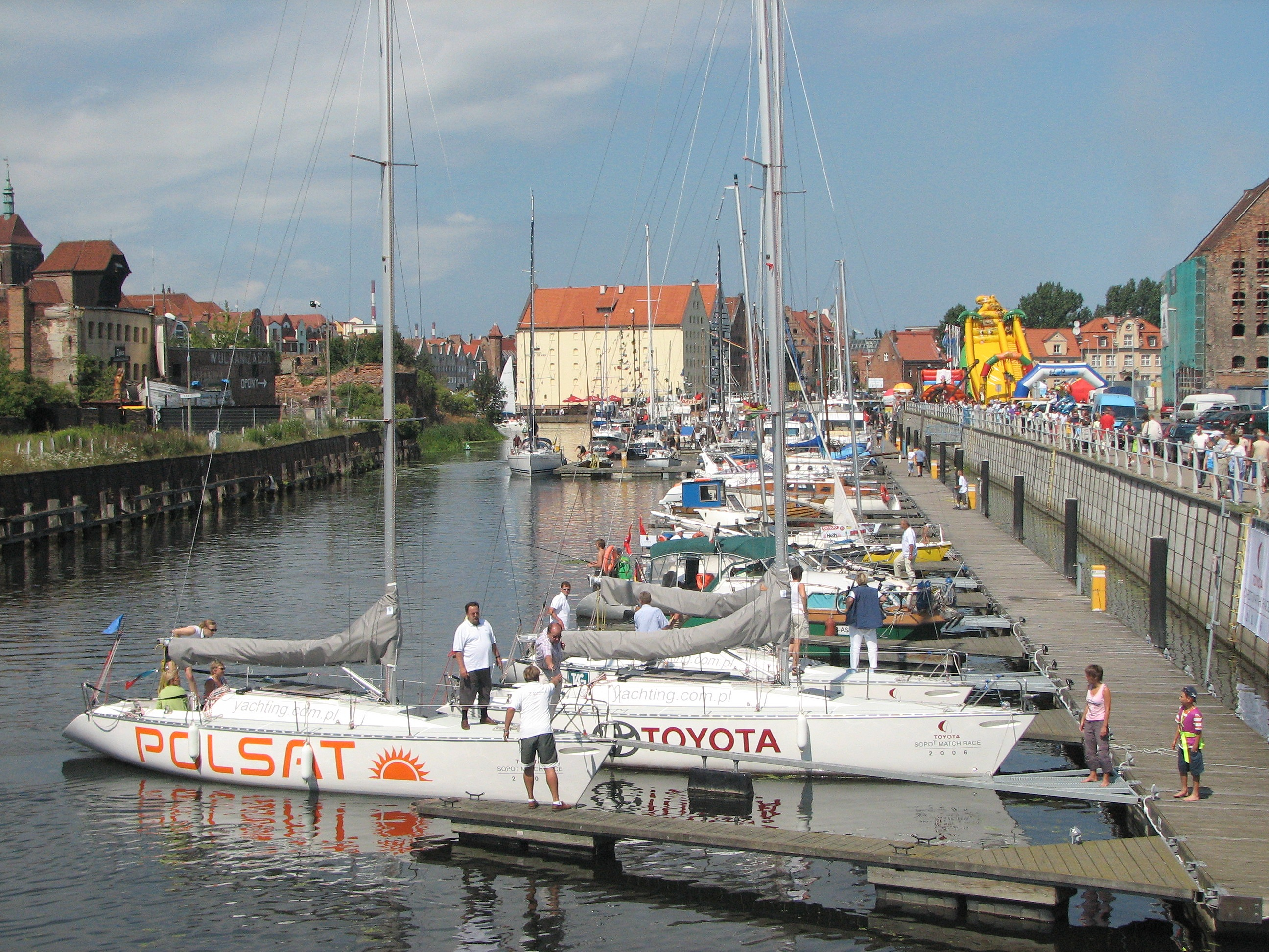 Marina in Gdansk, Poland